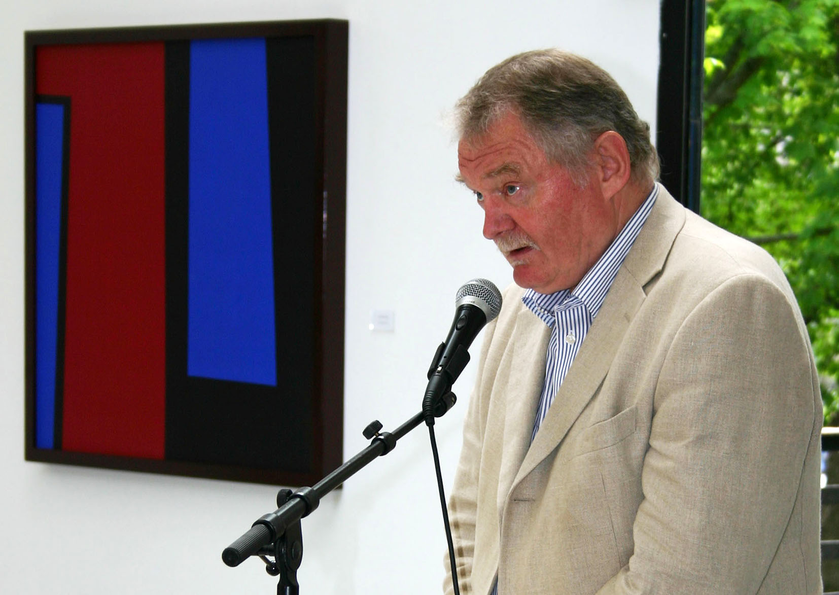 Ove Stokstad, a Norwegian printmaker and jazz musician, professor emeritus at NTNU, Trondheim Academy of Fine Art at his own exhibition in Trondheim Art Museum in 2006